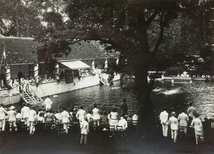 People watching a water polo match at the bathing place Banyu Biru (Blue Water)